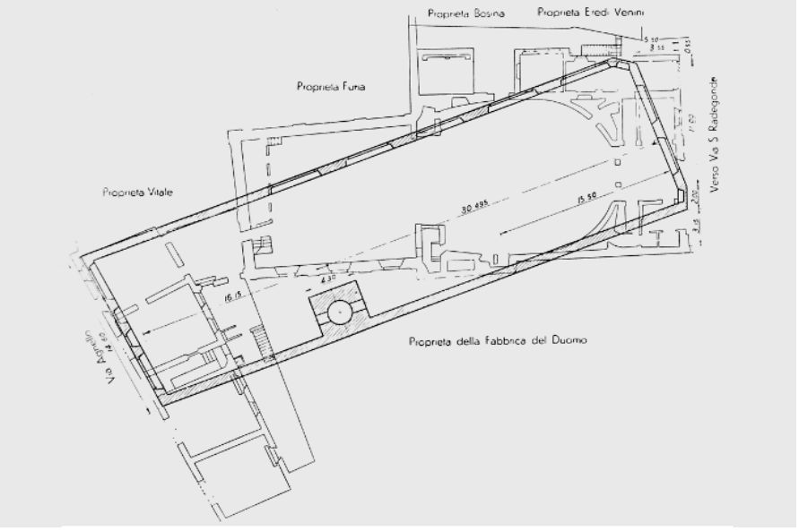 plan view of the Santa Radeognda power station superimposed on the plan of the theatre with the same name. From the book Damiani, G (1927) "un glorioso cimelio che non è più" retrieved at the Braidense library in Milano Italy